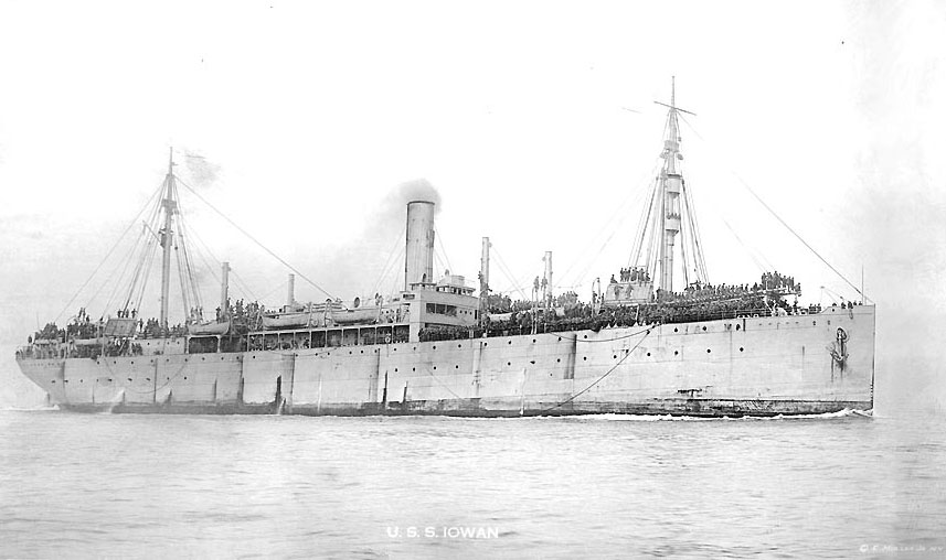 USS Iowan (ID # 3002) Arriving in a U.S. port (probably New York) in 1919, with her decks crowded with troops returning from Europe. Donation of Dr. Mark Kulikowski, 2007. U.S. Naval Historical Center Photograph.